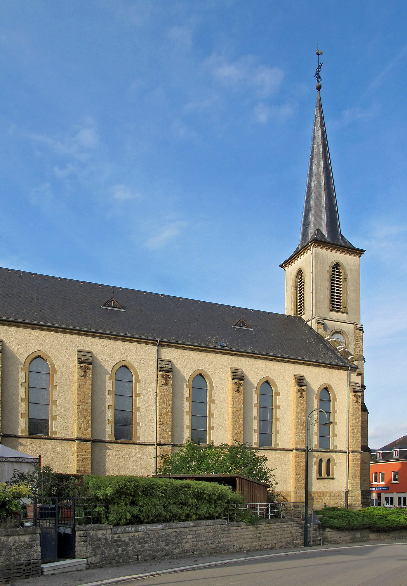 Church of Berbourg, Luxembourg